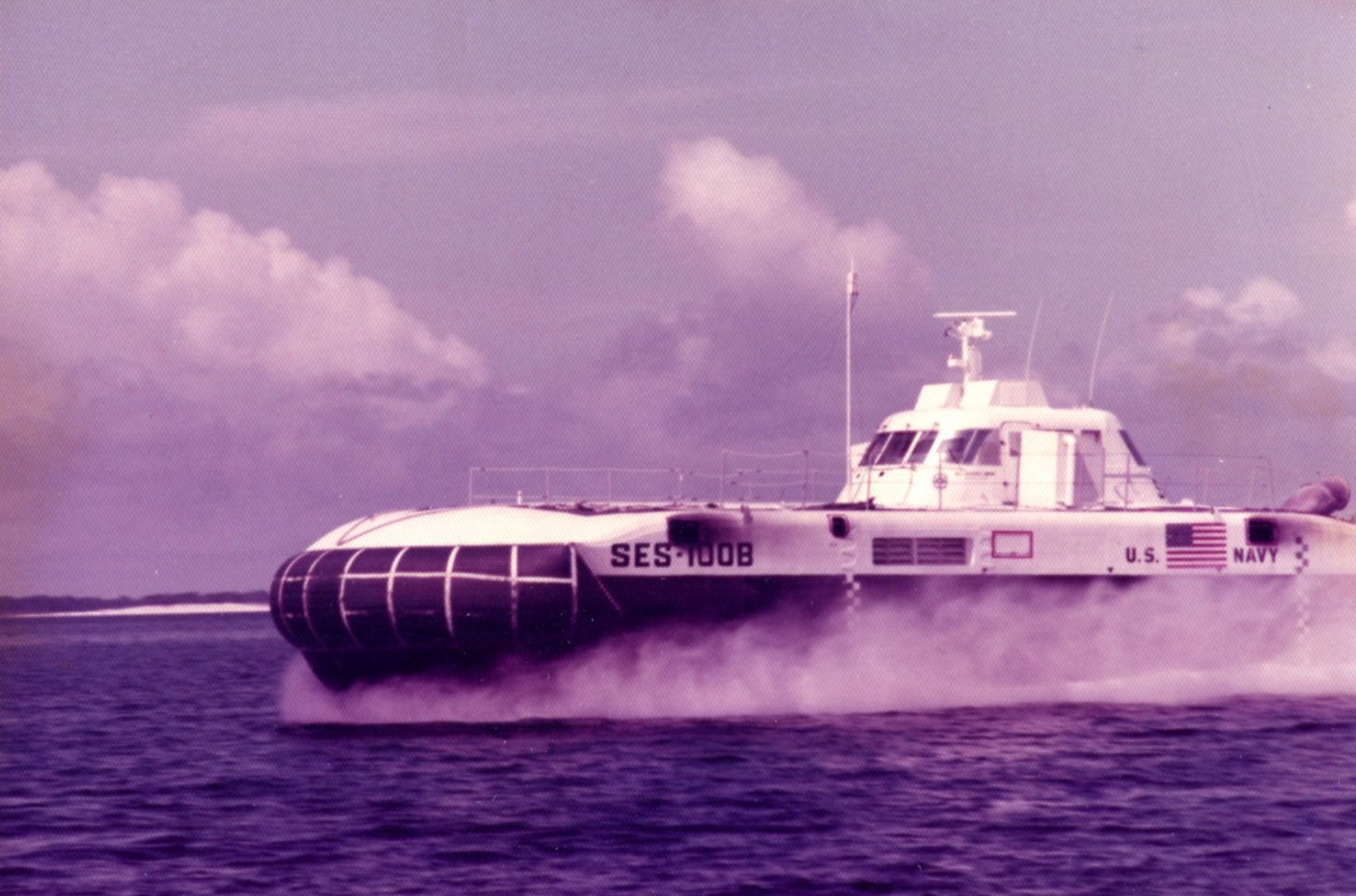 SES100B during a high speed run on St. Andrews Bay 1975